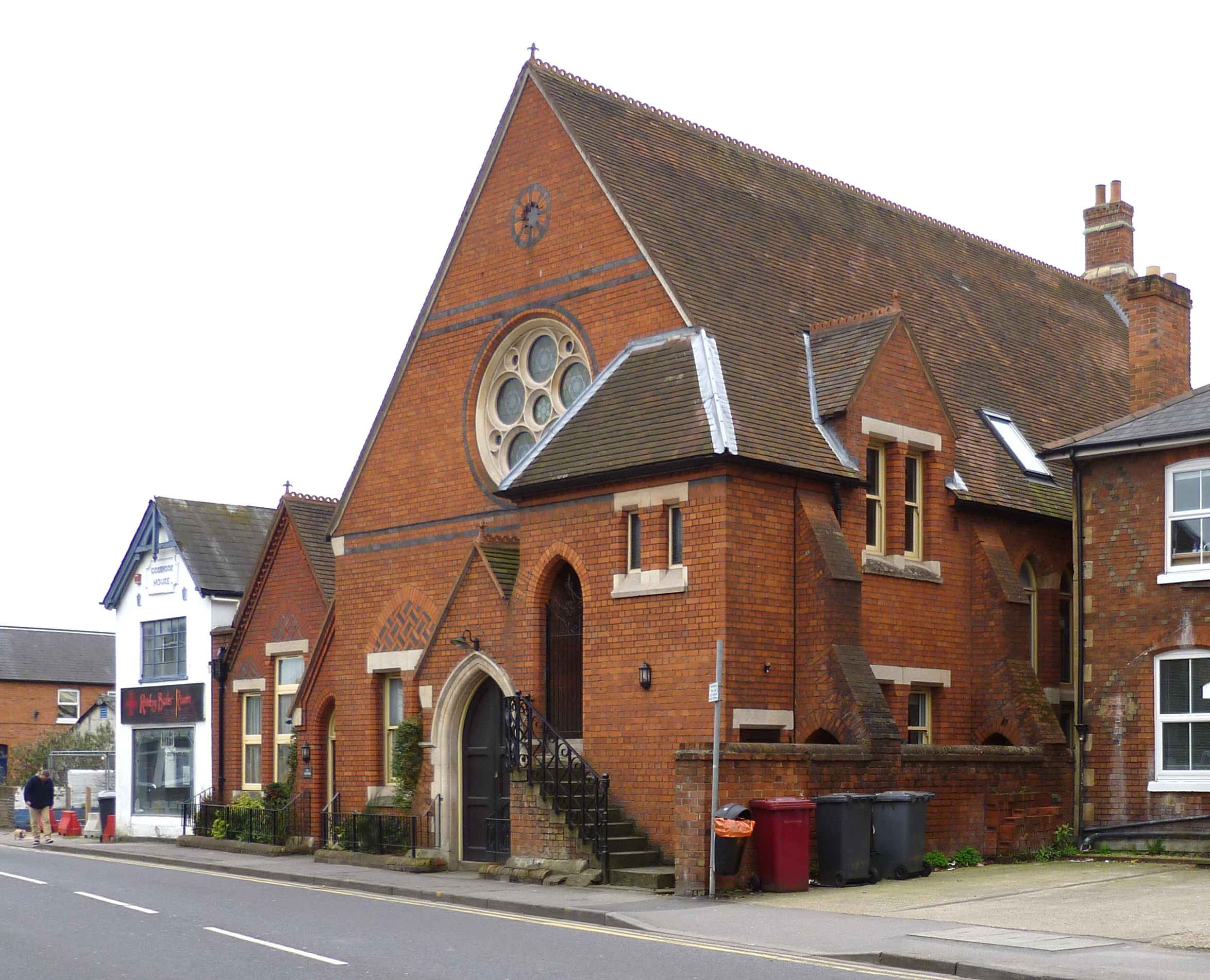 The West Memorial Hall, 7-9 Gosbrook Road, Caversham, Reading, Berkshire RG4 8BT, United Kingdom. A former Baptist Free Church which was converted to apartments but is still listed Grade II by English Heritage.